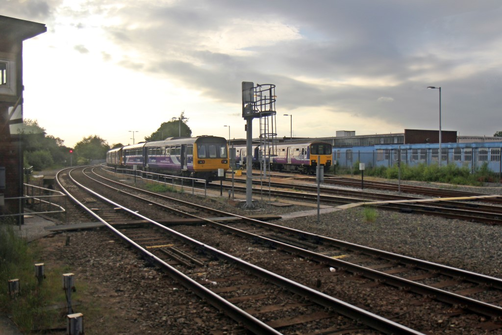 Northern Rail units, Wigan Wallgate Carriage Sidings